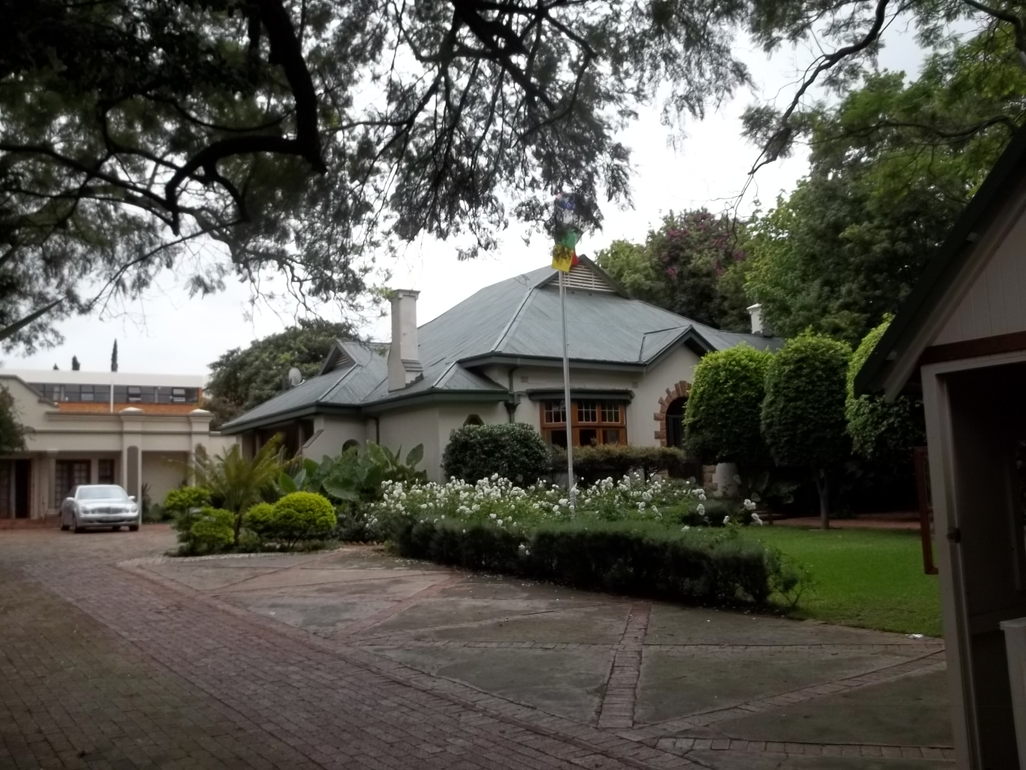 CF in ZA